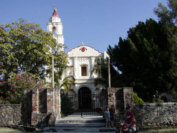 Imagen tomada por User:Mnts con una Camara Olympus C-700 UZ 2.1 Mpix a ISO 300 en Temoac Morelos en Nov de 2004. Image taken by [ [ User:Mnts ] ] with a Olympus C-700 UZ digital camera 2,1 Mpix @ ISO 300 in Temoac Morelos in Nov 2004.